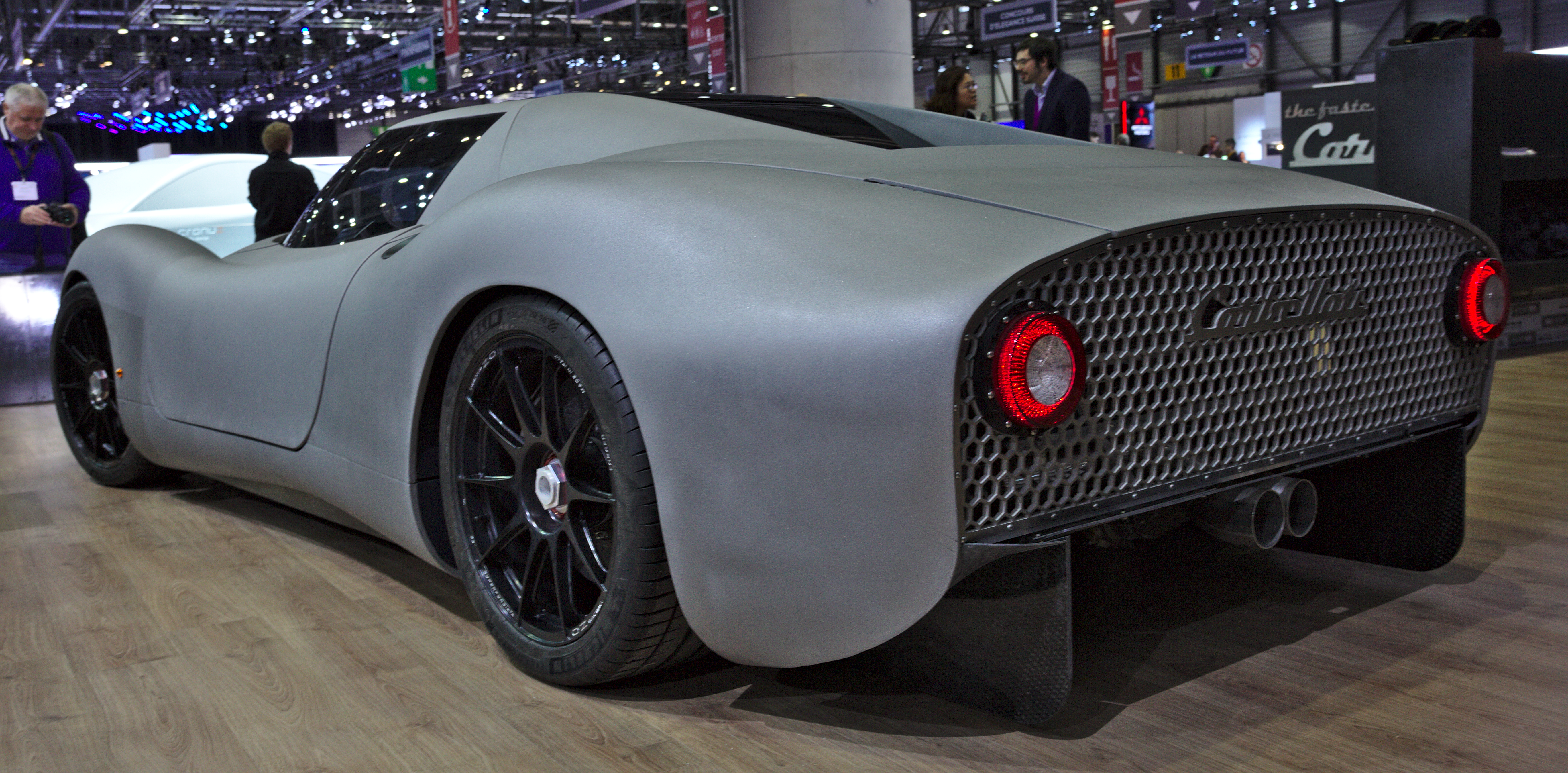 Corbellati Missile at Geneva Motorshow 2018